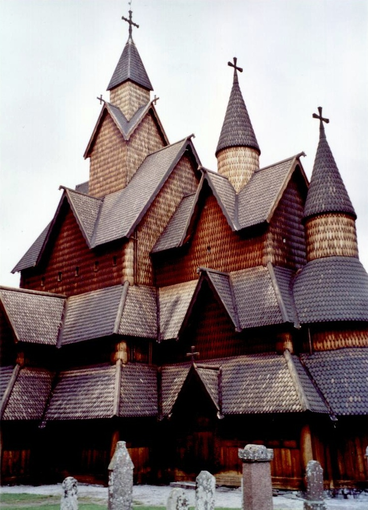 Stave Church in Heddal, Norway